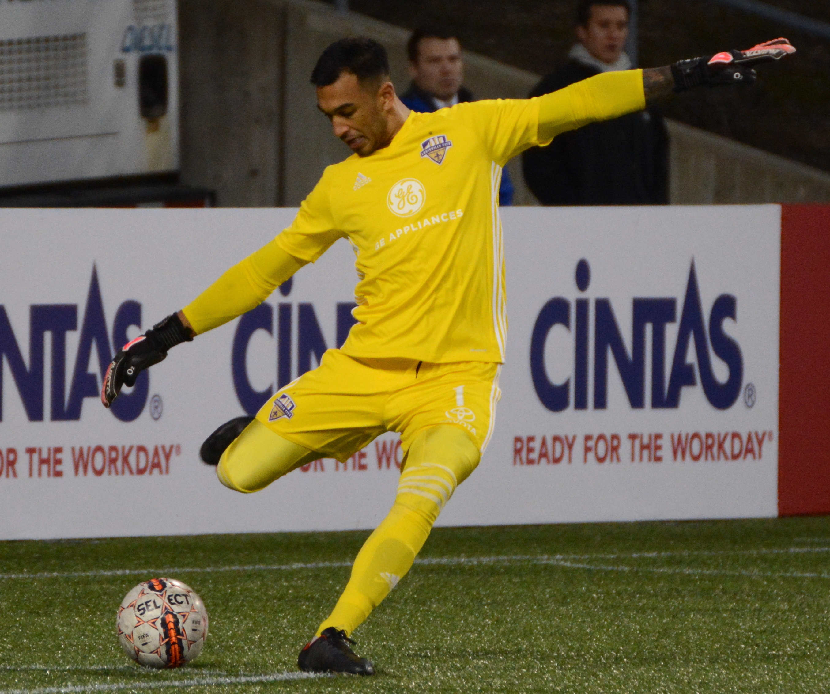 Louisville goalkeeper Greg Ranjitsingh taking a goal kick. Taken during FC Cincinnati's home opener against Louisville City FC at Nippert Stadium in Cincinnati, USA on April 7, 2018.